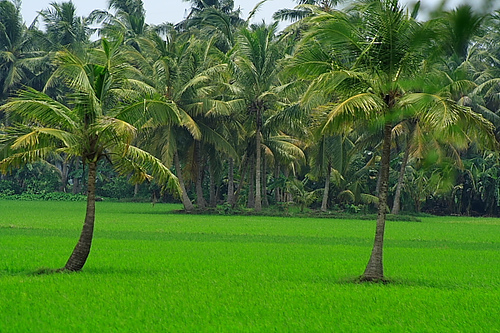 Photo of Mummidivaram